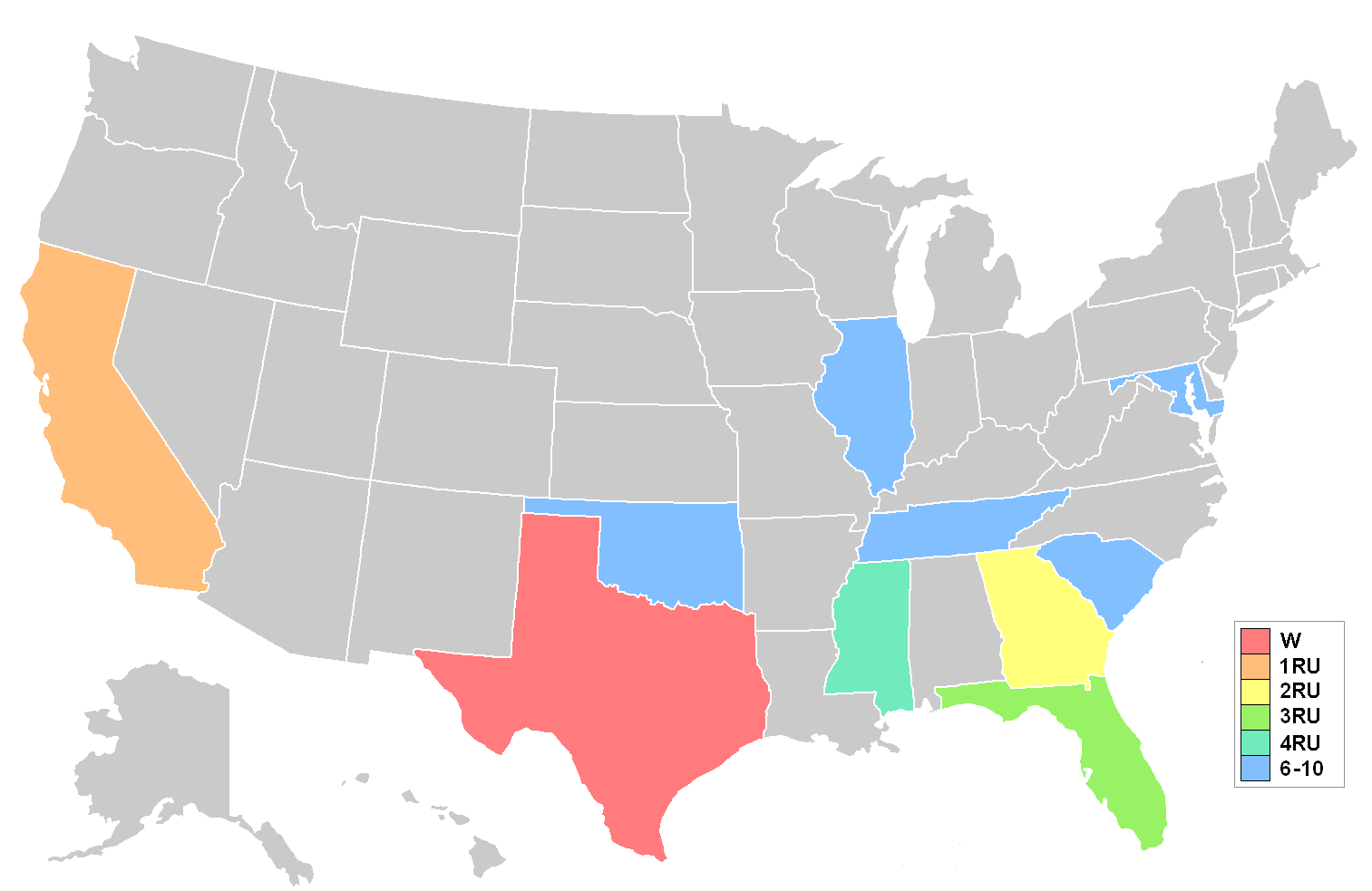 Map showing placements at the Miss USA 1988 pageant. Key on graphic shows colour coding for break down of placements.